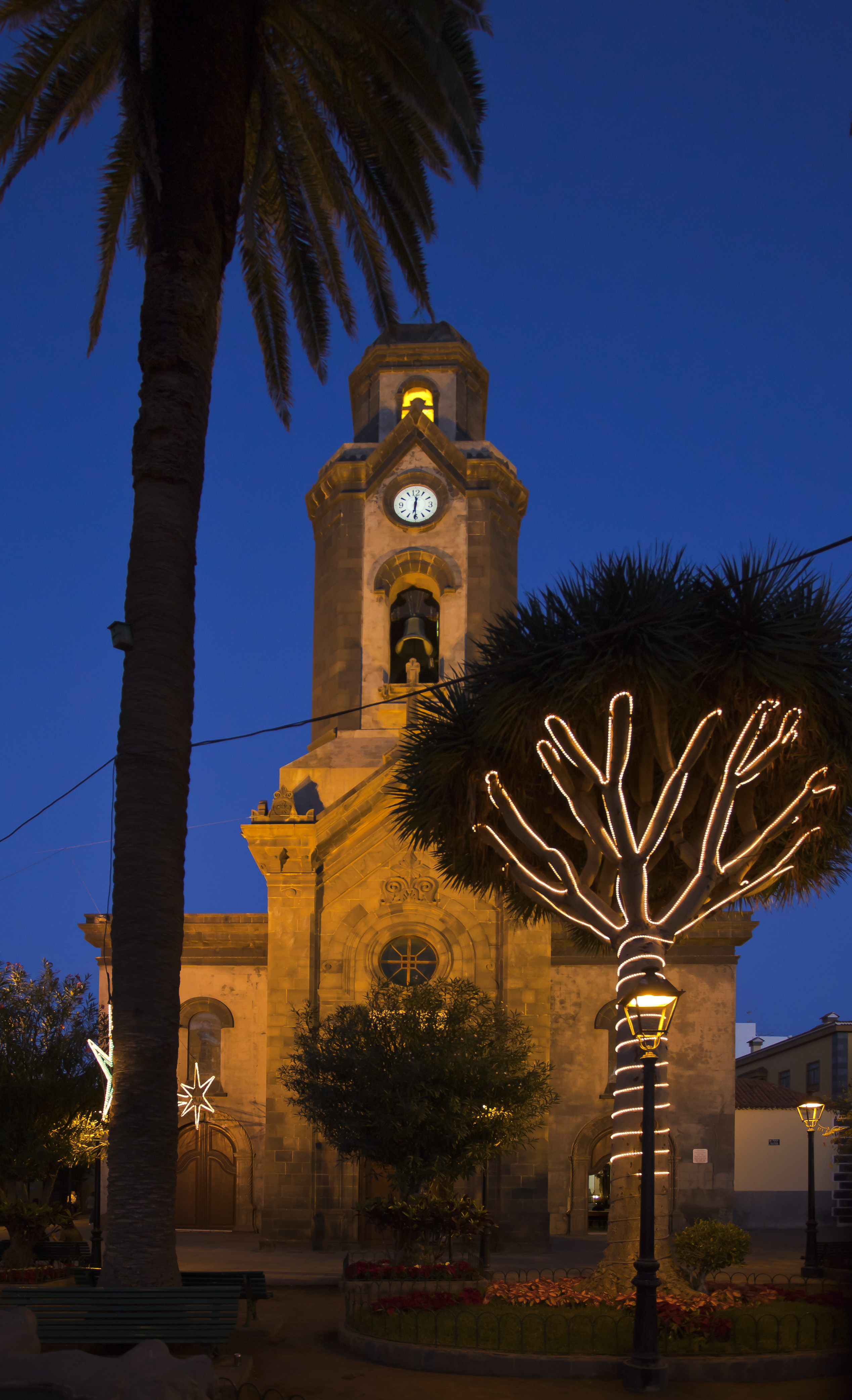 Church of Nuestra Señora de la Peña de Francia, Puerto de la Cruz, Tenerife, Spain